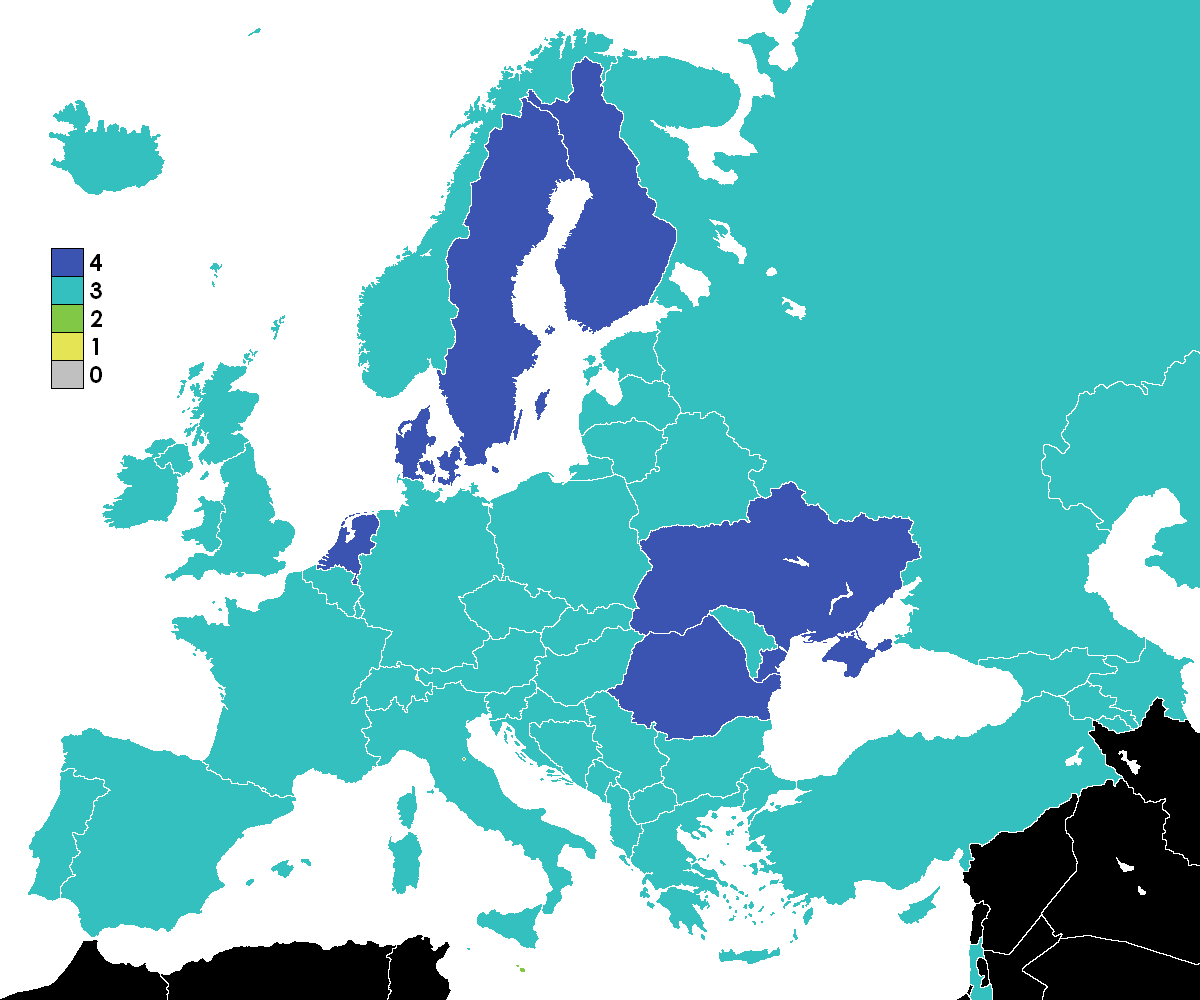 Number of teams competed in 2010-2011 Europa League by country before the beginning of tournament.